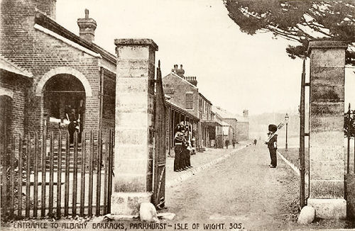 Postcard of Albany Barracks on the Isle of Wight